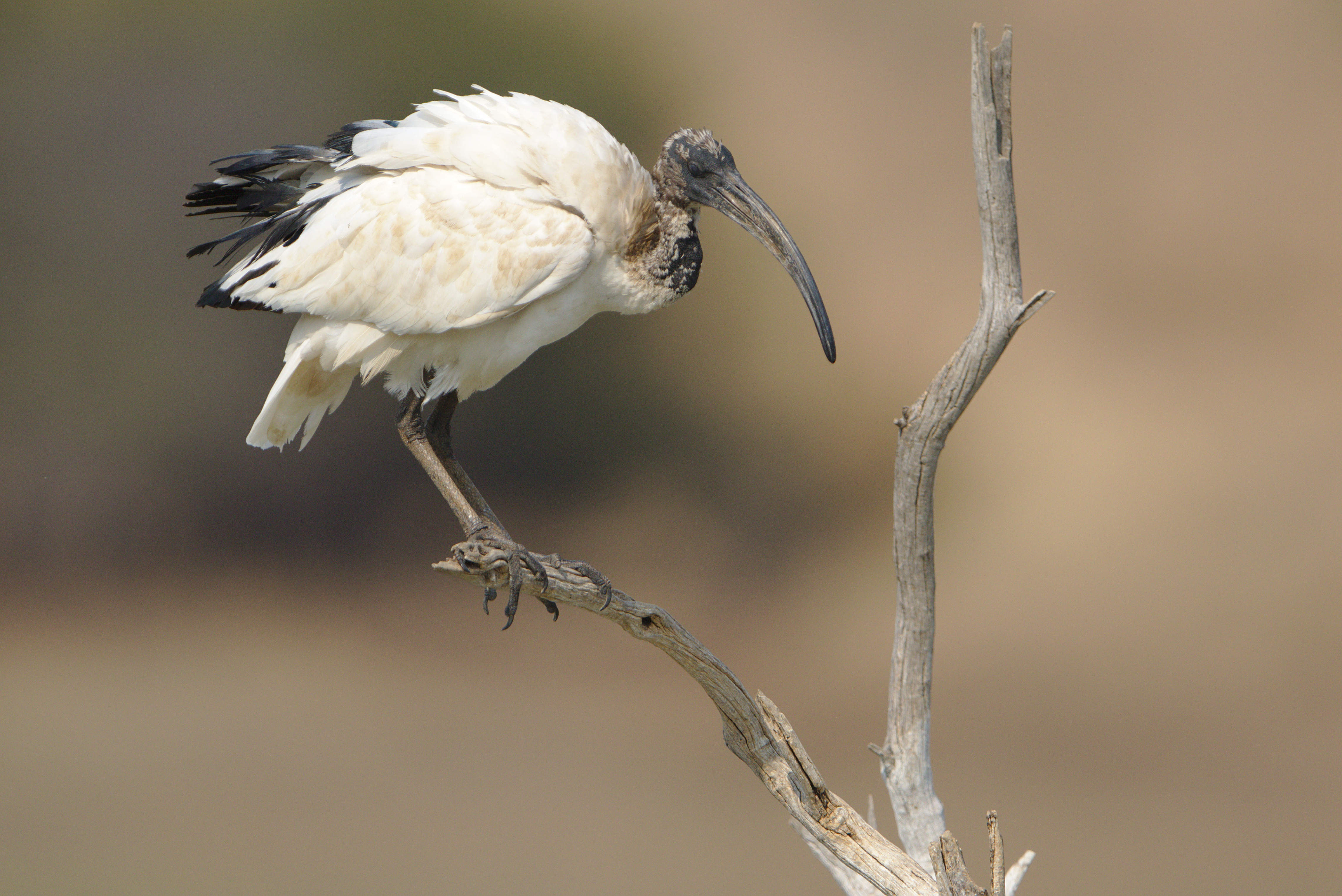 African Sacred Ibis,Threskiornis aethiopicus, at Pilanesberg National Park, South Africa